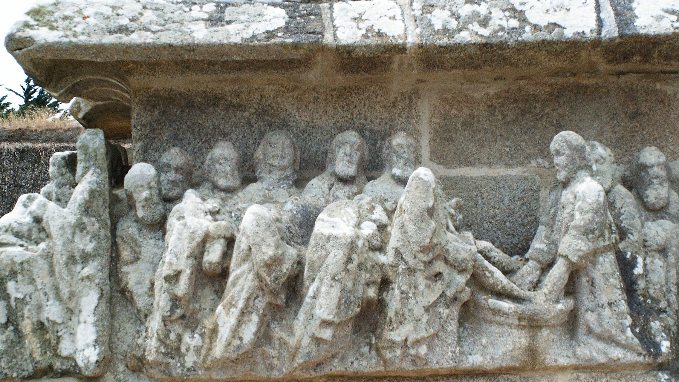 The calvaire of Notre-Dame de Tronoën. 15th century.